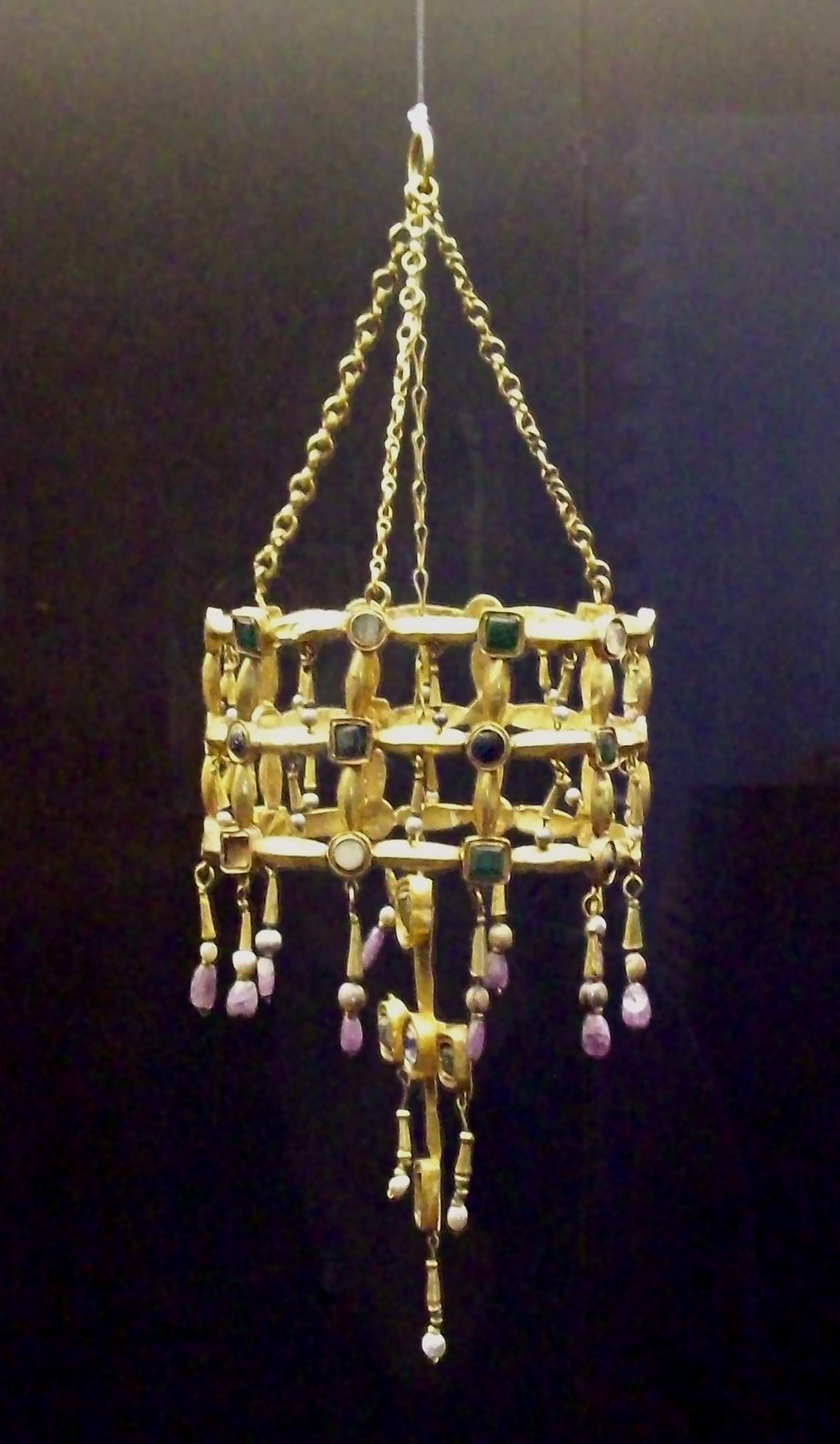 Visigothic votive crown and cross. Made of gold, precious stones, nacre, pearls and crystal in the 7th century. They are part of the so-called Treasure of Guarrazar.